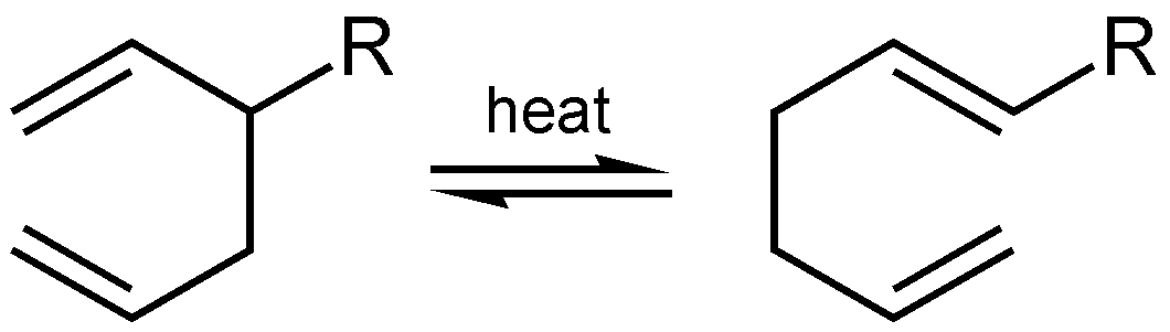 Description: Scheme of Cope rearrangement. Source = Selfmade. Date = 11 July 2006. Made with ChemDraw.